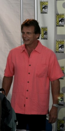 Ok, so Marc Singer wasn't on Geekscape, but he was in the path of the Migration.